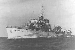 HMCS Fredericton (K245), sometime between 1942-1945